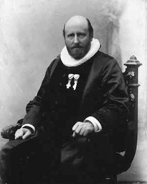 Fredrik Christian Nielsen (1846-1907), Danish bishop